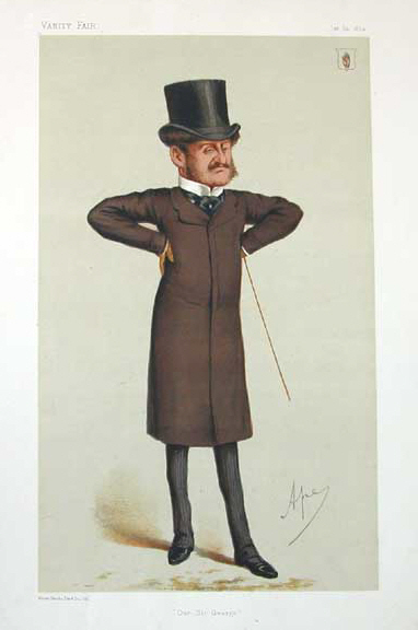 Caricature of Sir George Orby Wombwell. Caption reads "Our Sir George".